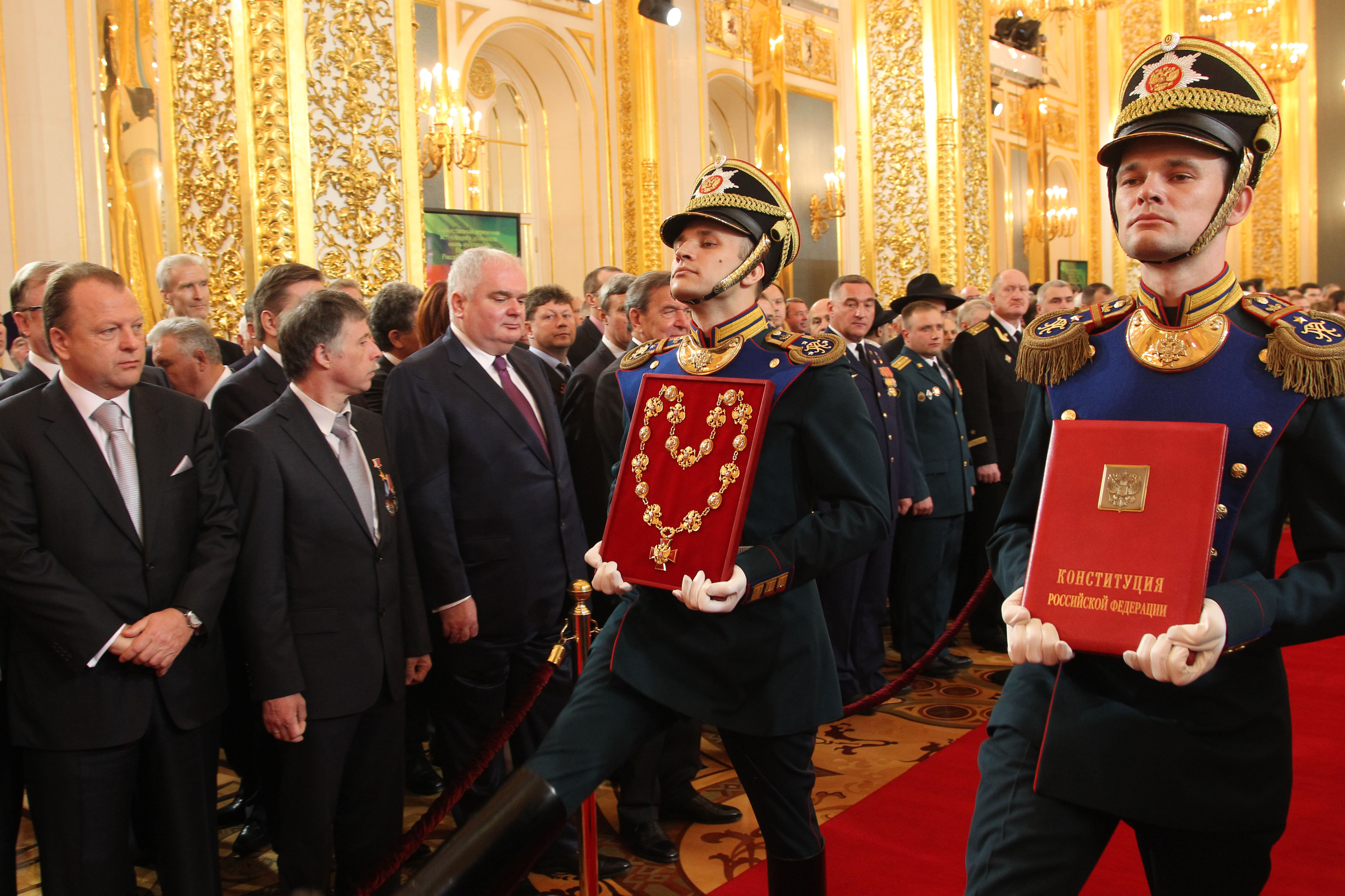 Officers of the Presidential Regiment participating in the inauguration ceremony of Russian President Vladimir Putin in 2012